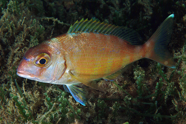 Pagrus pagrus photographed near Tuscany coasts (Italy) by Stefano Guerrieri.